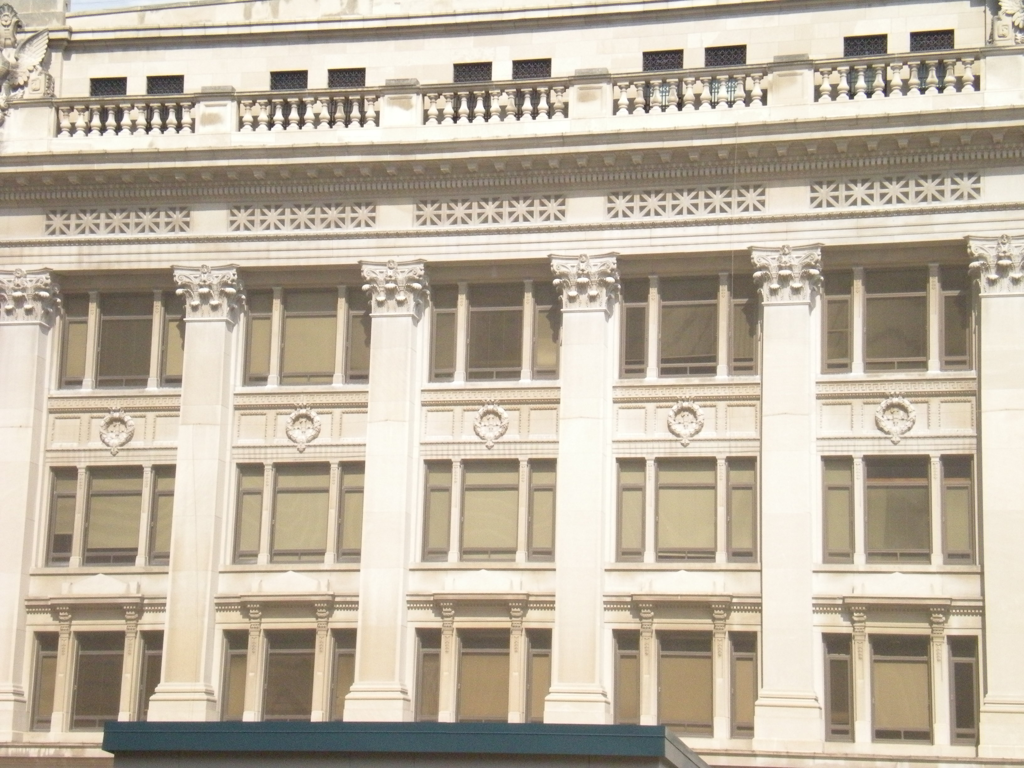 Douglas County Courthouse.